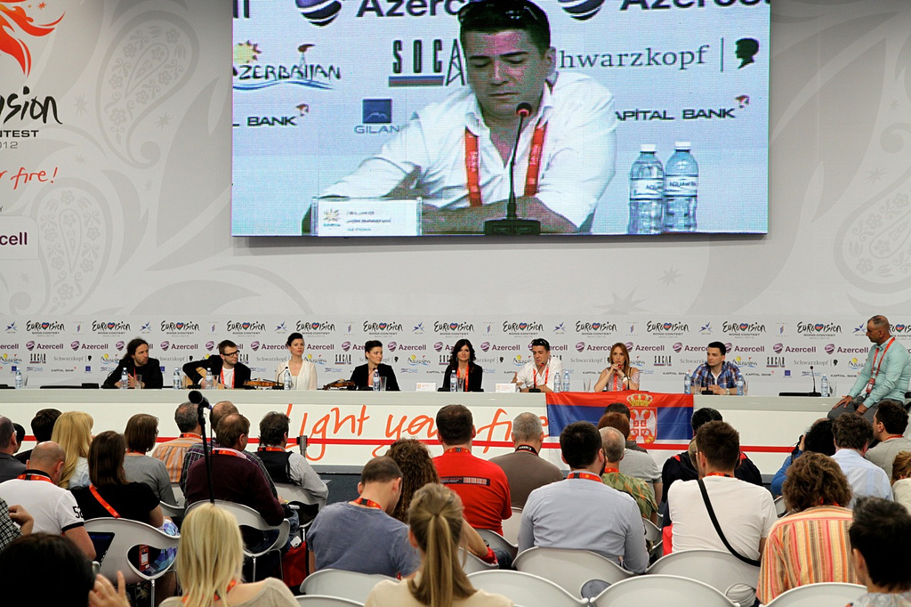 1st press conference